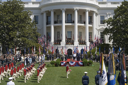 A state arrival ceremony held on the South Lawn at the White House, for her Majesty Queen Elizabeth II and his Royal Highness the Prince Philip, Duke of Edinburgh, with the Old Guard Fife and Drum Corps parading in front of a raised dais